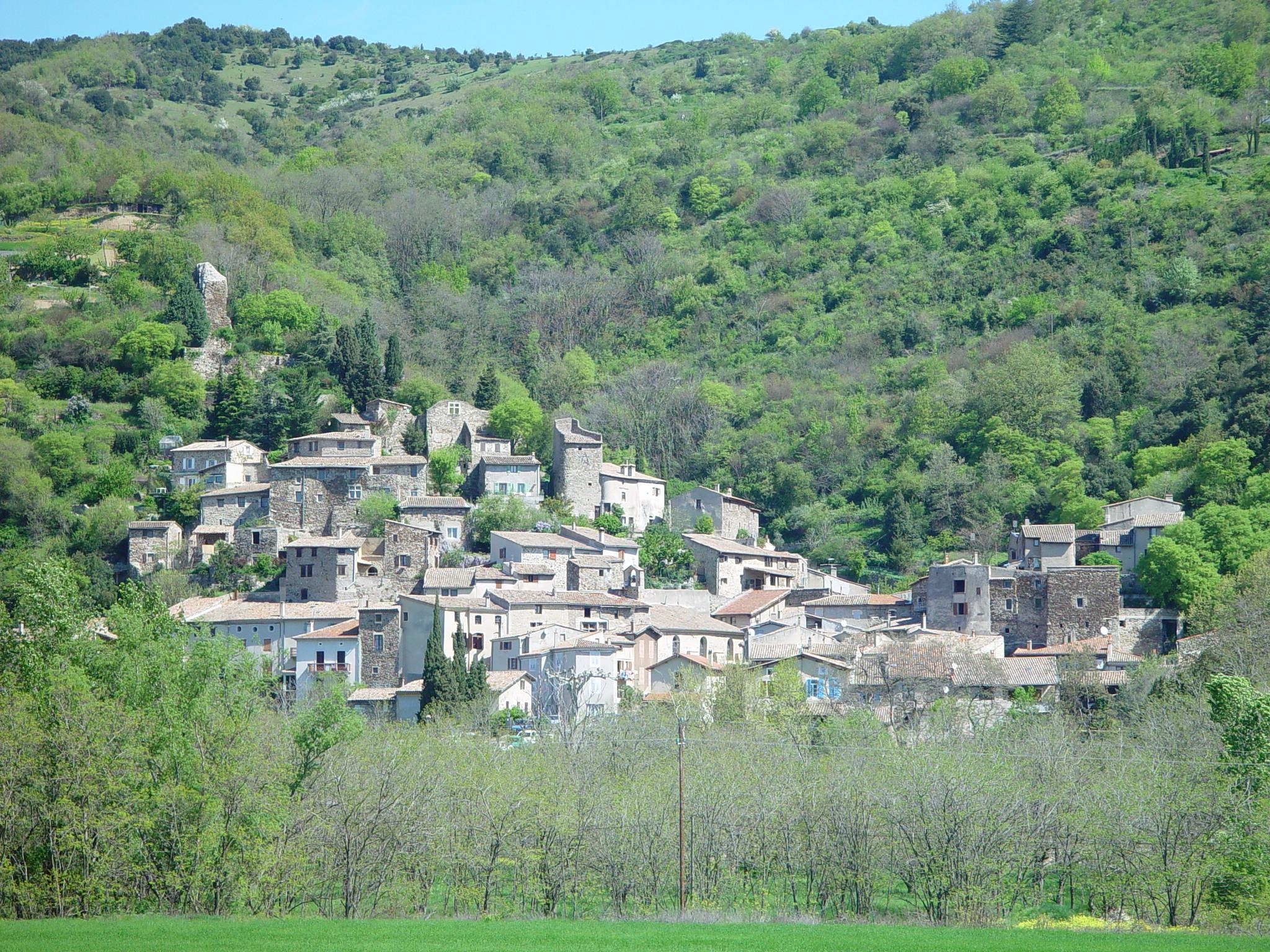 view of the old village Beauchastel